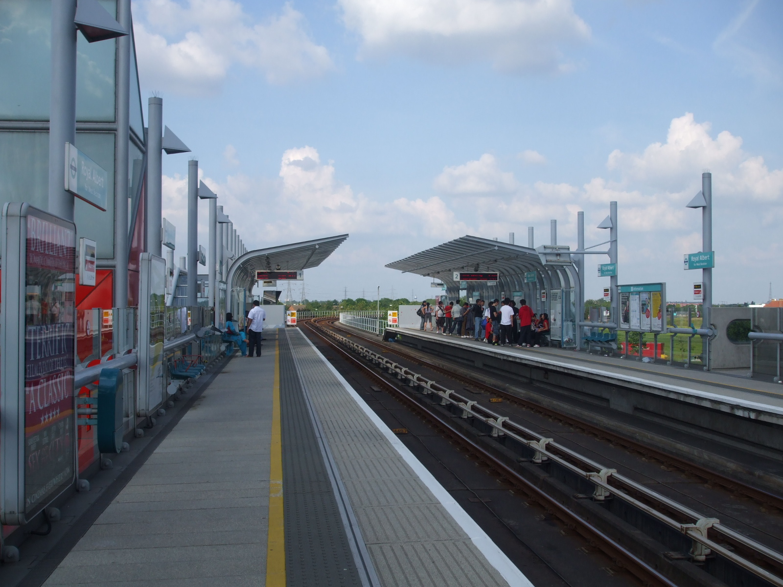 Royal Albert DLR station looking east